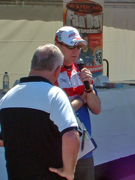 Brad Jones being interviewed by 93.1 StarFM